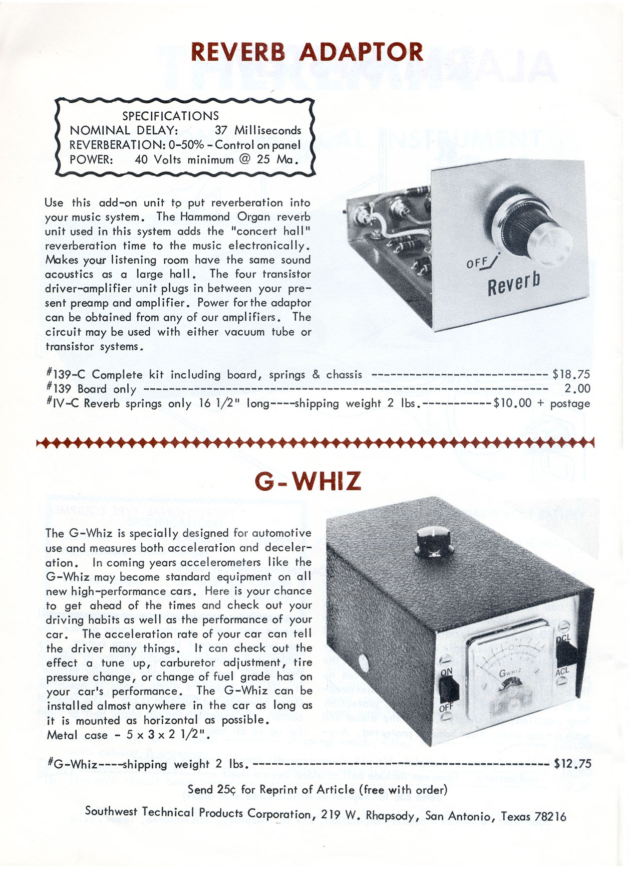 Southwest Technical Products Corporation catalog circa 1969. Founded by Daniel Meyer in 1964, SWTPC sold kits of parts for electronics projects published in magazines such as Popular Electronics and Radio-Electronics. In late 1975 they introduced the SWTPC 6800 Computer System based on the Motorola 6800 microprocessor. "Build a Reverb-b-b Adapter" by Damiel Meyer published in Popular Electronics January 1968. "Build the G-Whiz" by George J. Whalen published in Popular Electronics September 1968.